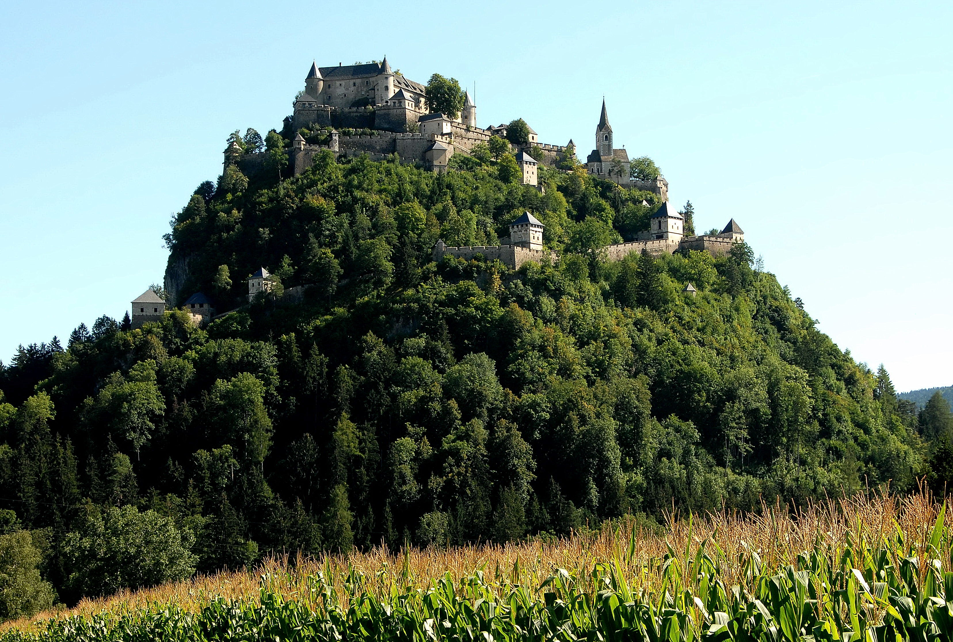 Castle Hochosterwitz in the community Saint George on the Laengsee, district Saint Veit on the Glan, Carinthia, Austria